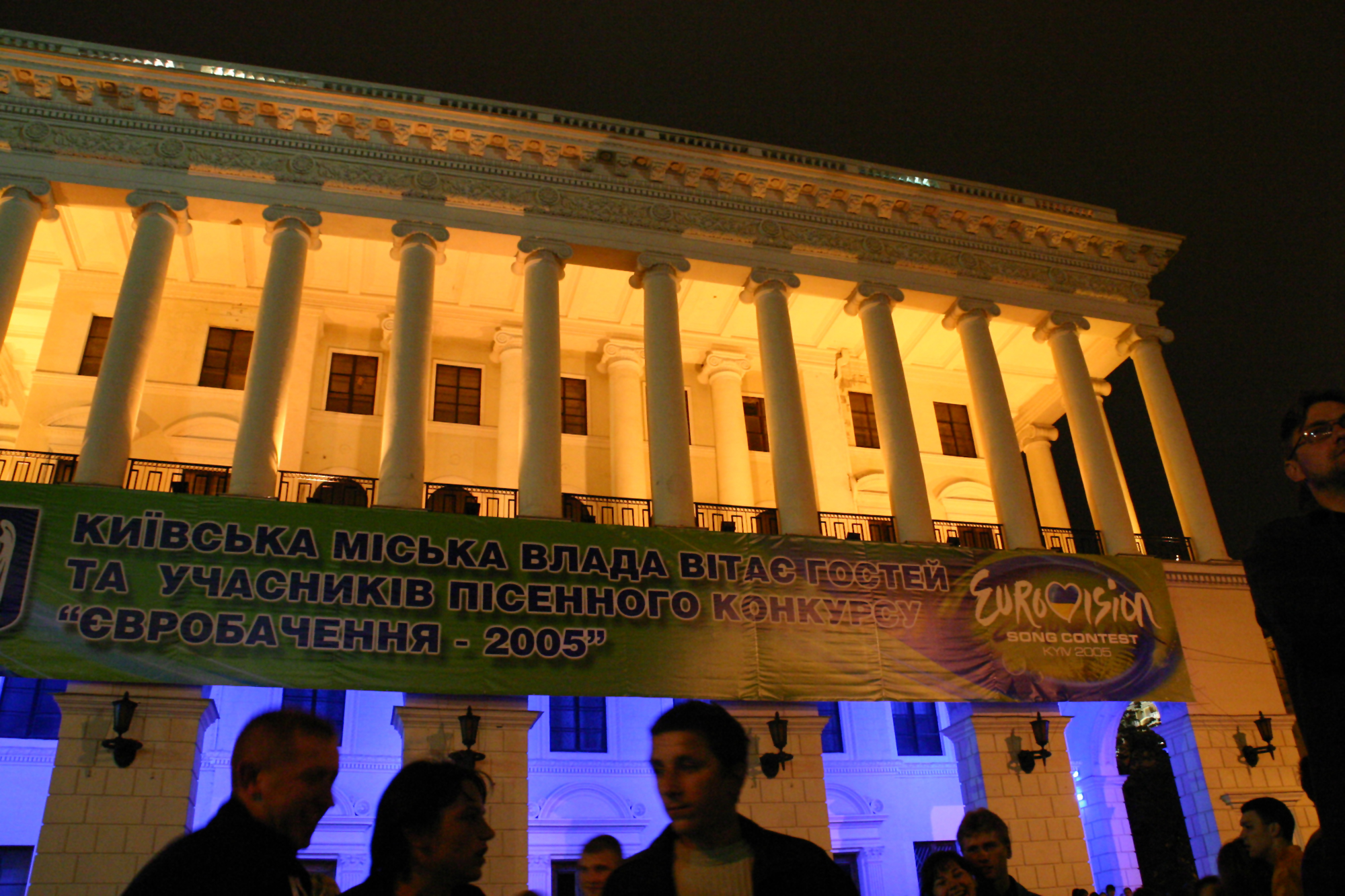 Eurovision Song Contest Kiev, Decoration on Maidan Nezaleshnosty.